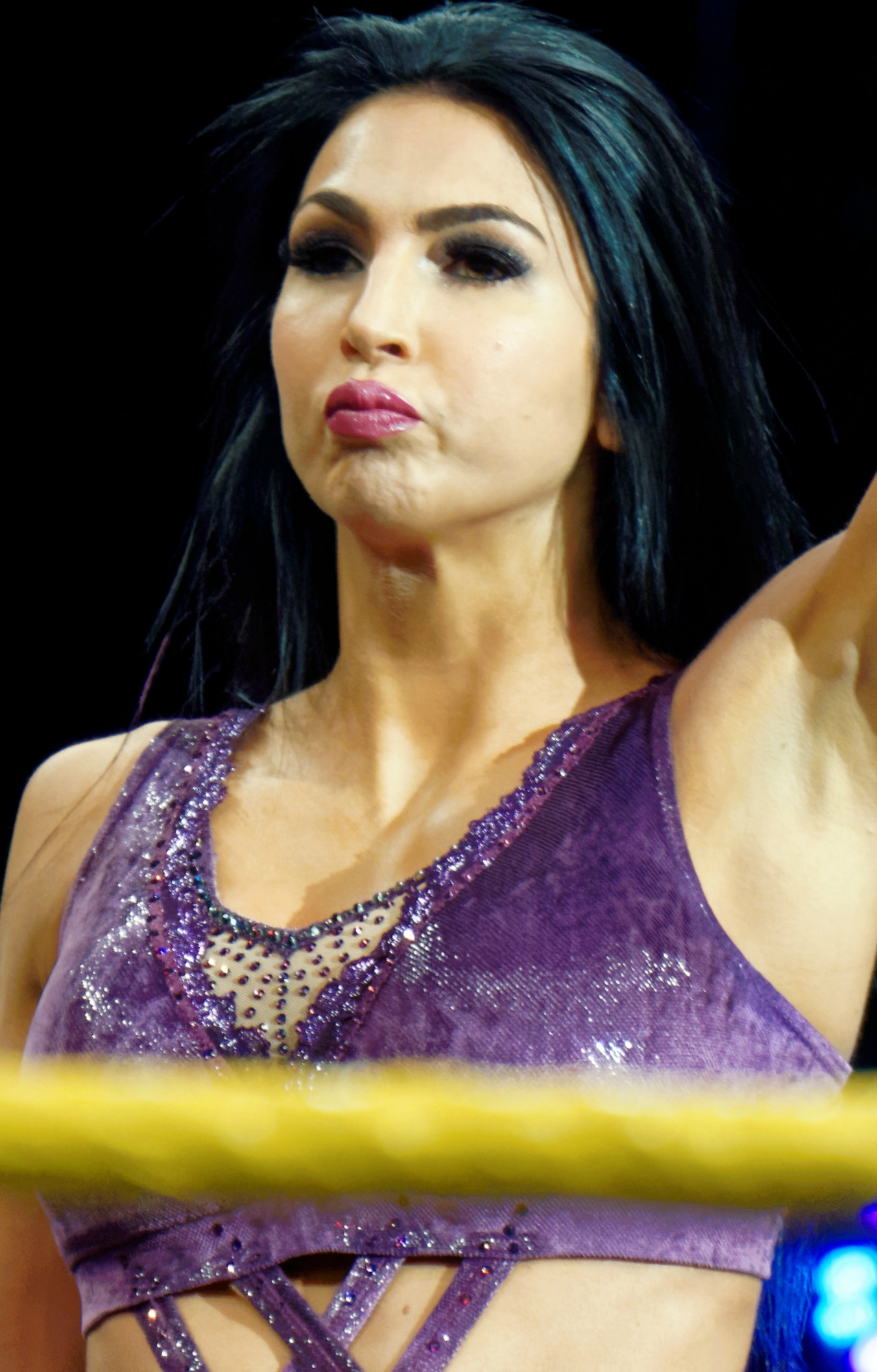 Billie Kay during the WrestleMania 32 Axxess in April 1, 2016.